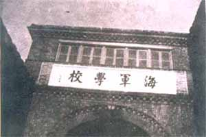 Mawei Naval Academy (1913-1946)